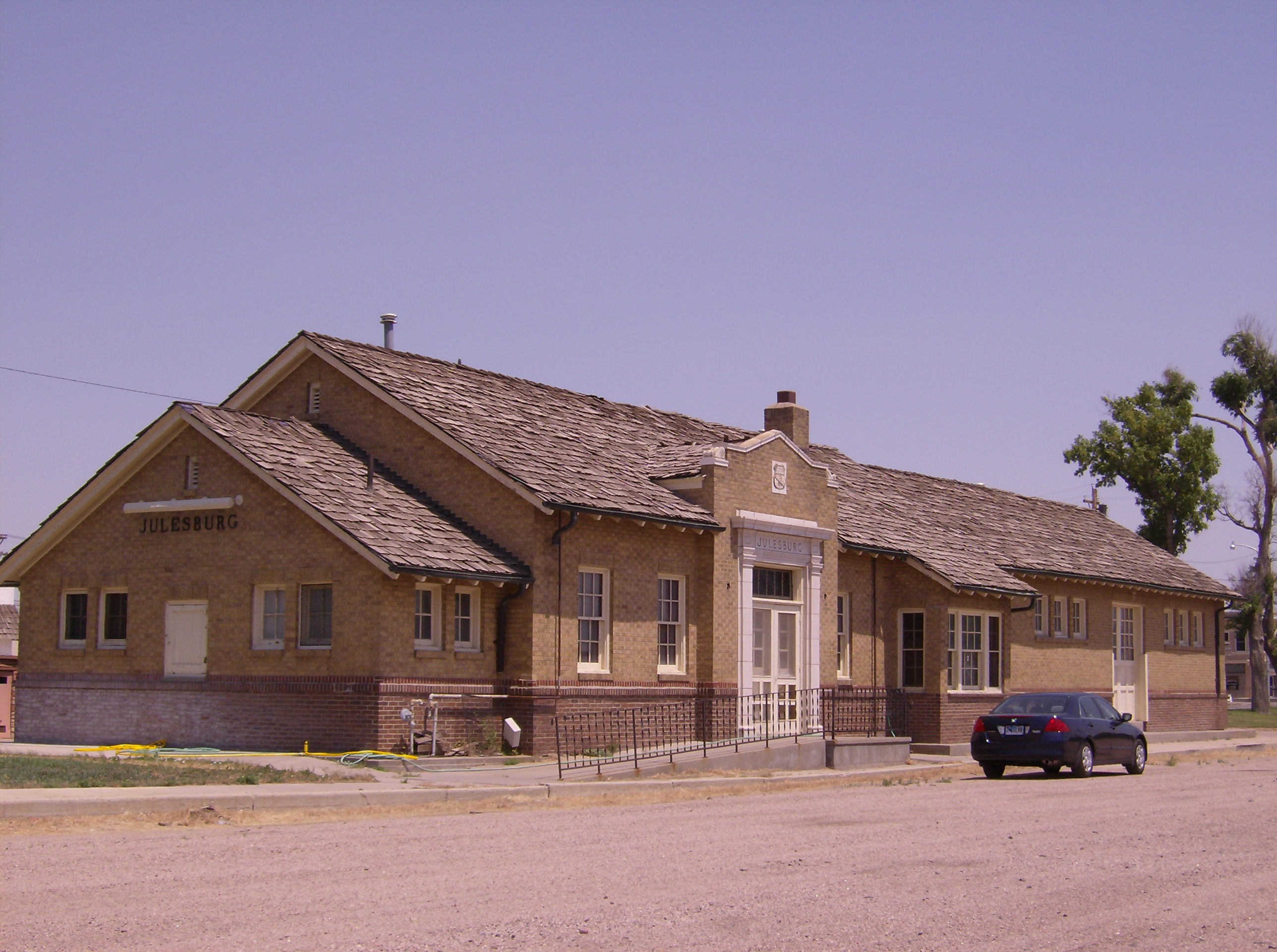 A former Union Pacific Railroad station in Julesburg, Colorado, which is now a museum, one of two owned by the Fort Sedgwick Historical Society.